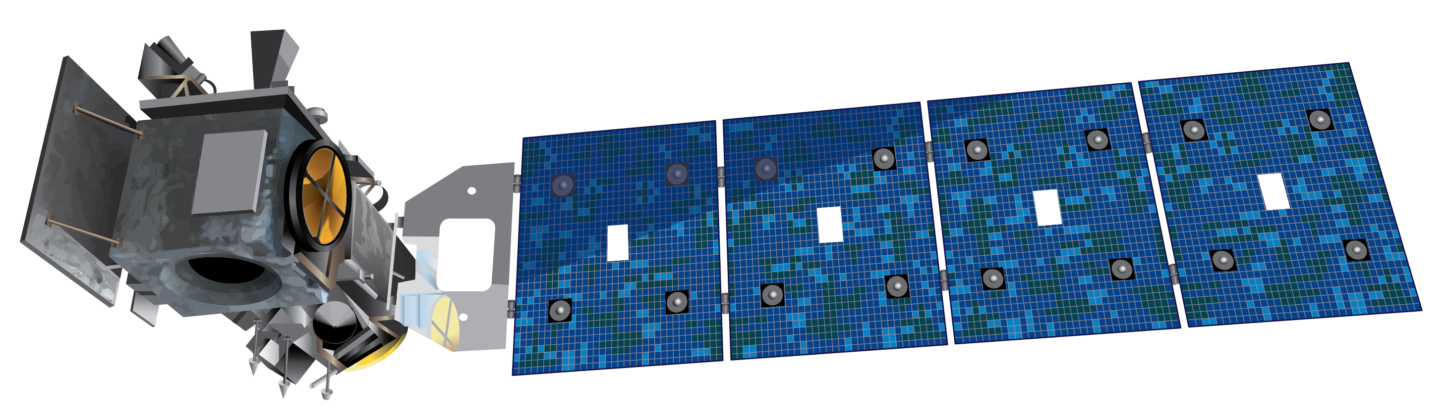 Illustration of the ICESat-2 spacecraft on a transparent background.